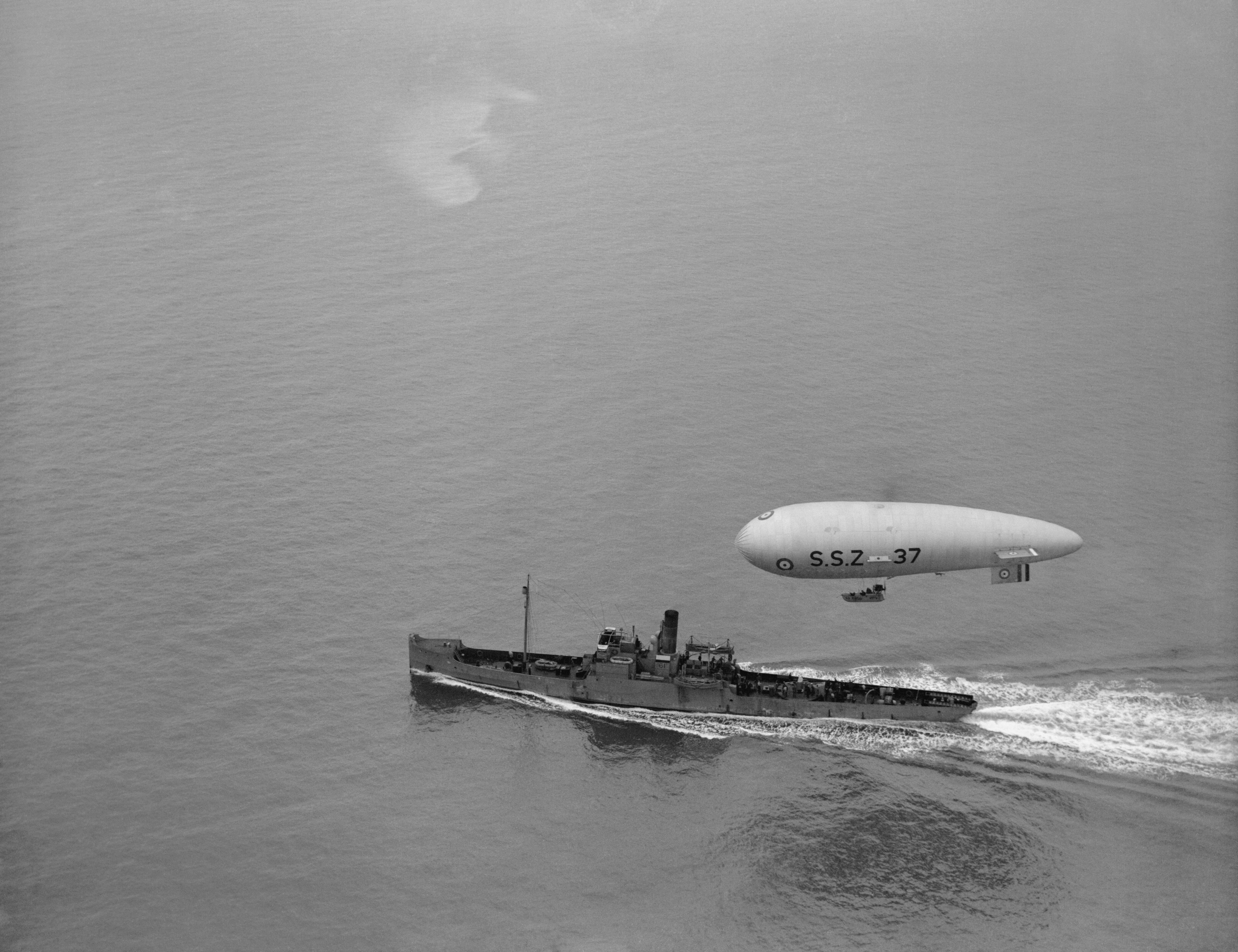 Photograph showing Submarine Scout Zero Type Airship SSZ 37 flying above a minelaying sloop. The sloop has the number 61 painted on the side.